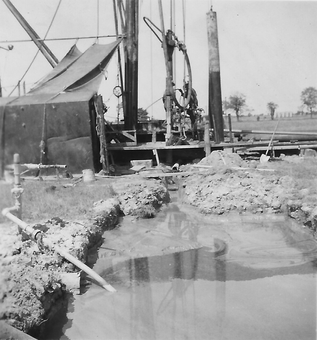 Unlined drilling fluid sump in Texas